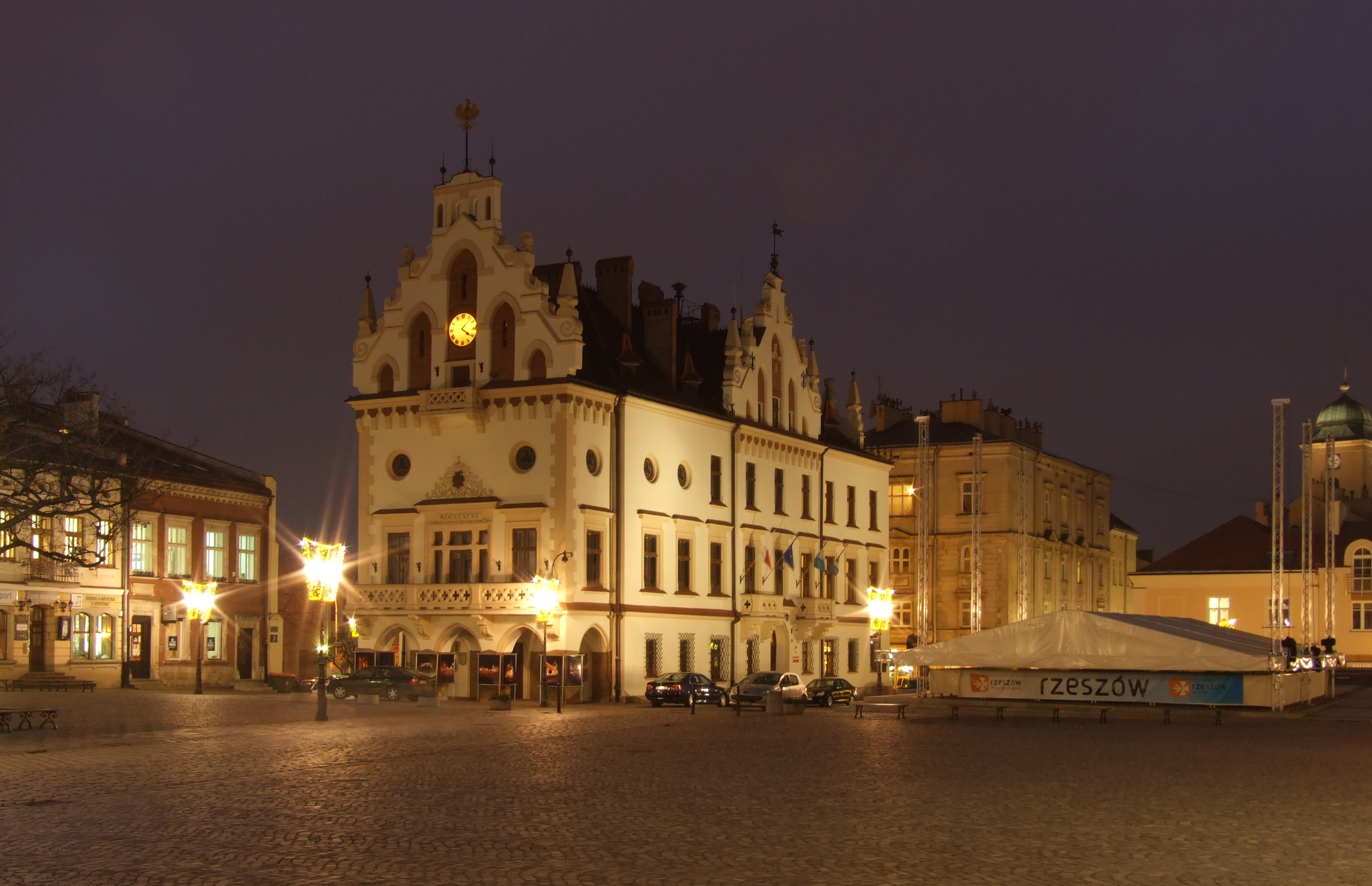 Rzeszów, old City Hall (Ratusz) at main square (Rynek) near evening, before Christmas. Podkarpackie Voivodship, PLhelp